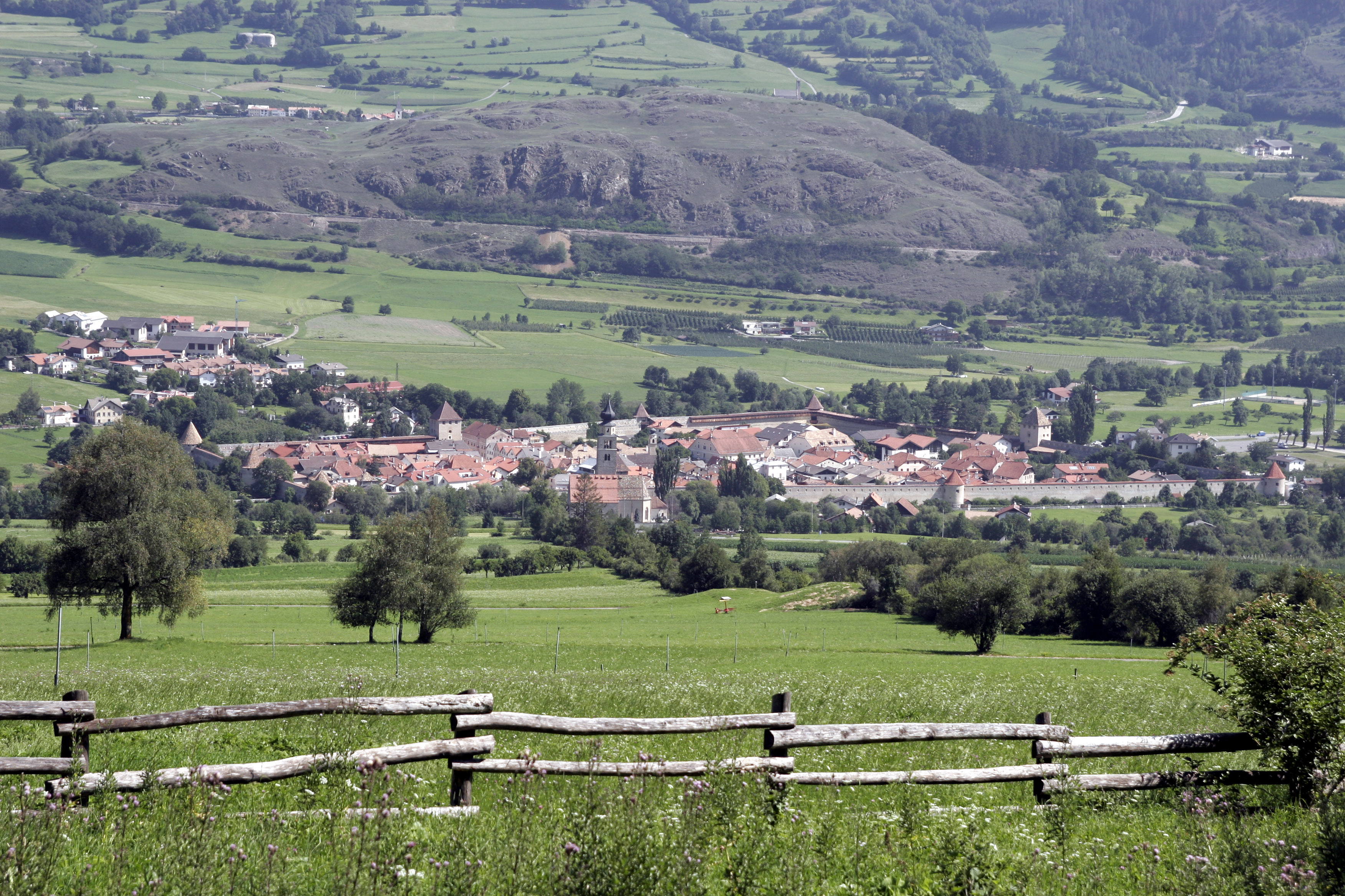 The city of Glurns (South Tyrol)